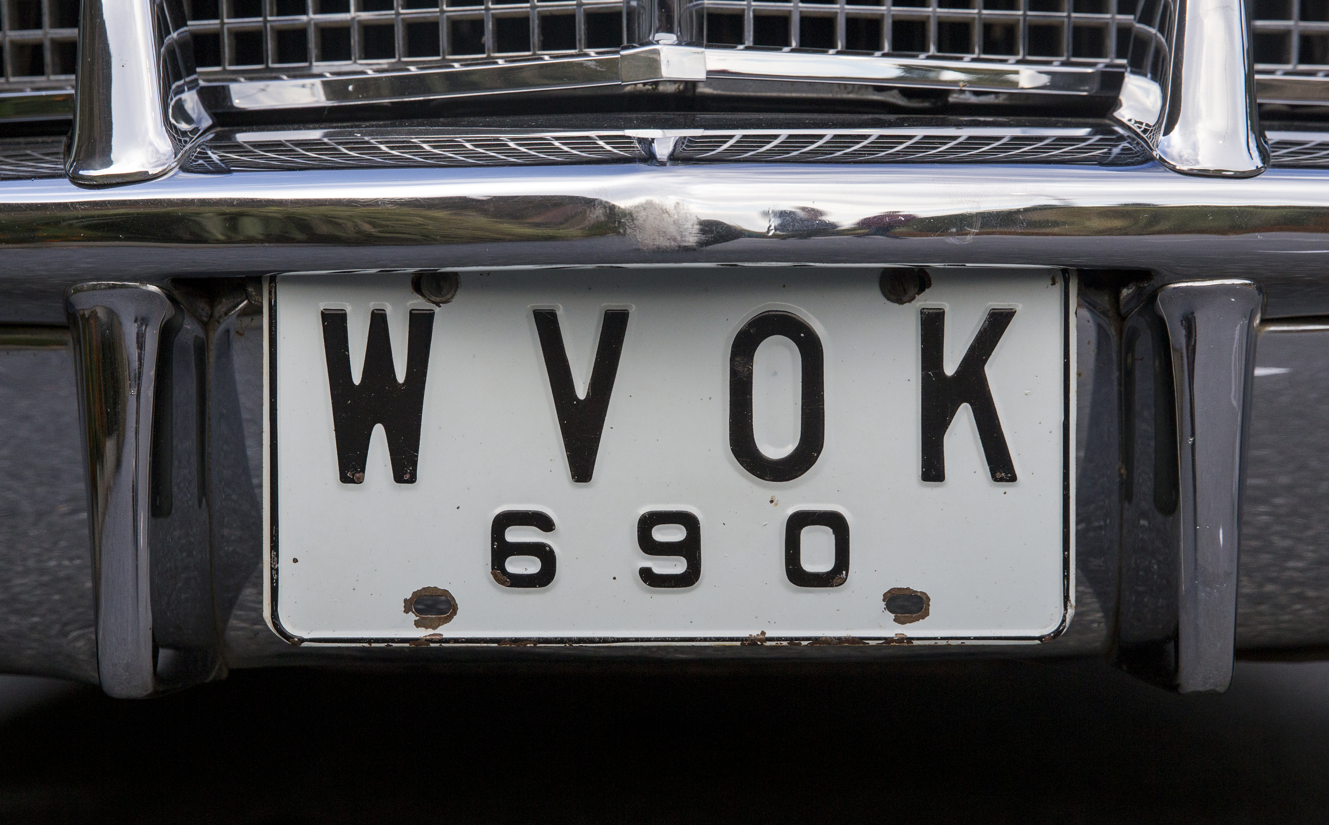 A radio license plate (whatever that is?) for 690 AM WVOK, an old Top 40 station out of Birmingham AL. Might be a dog whistle thing?